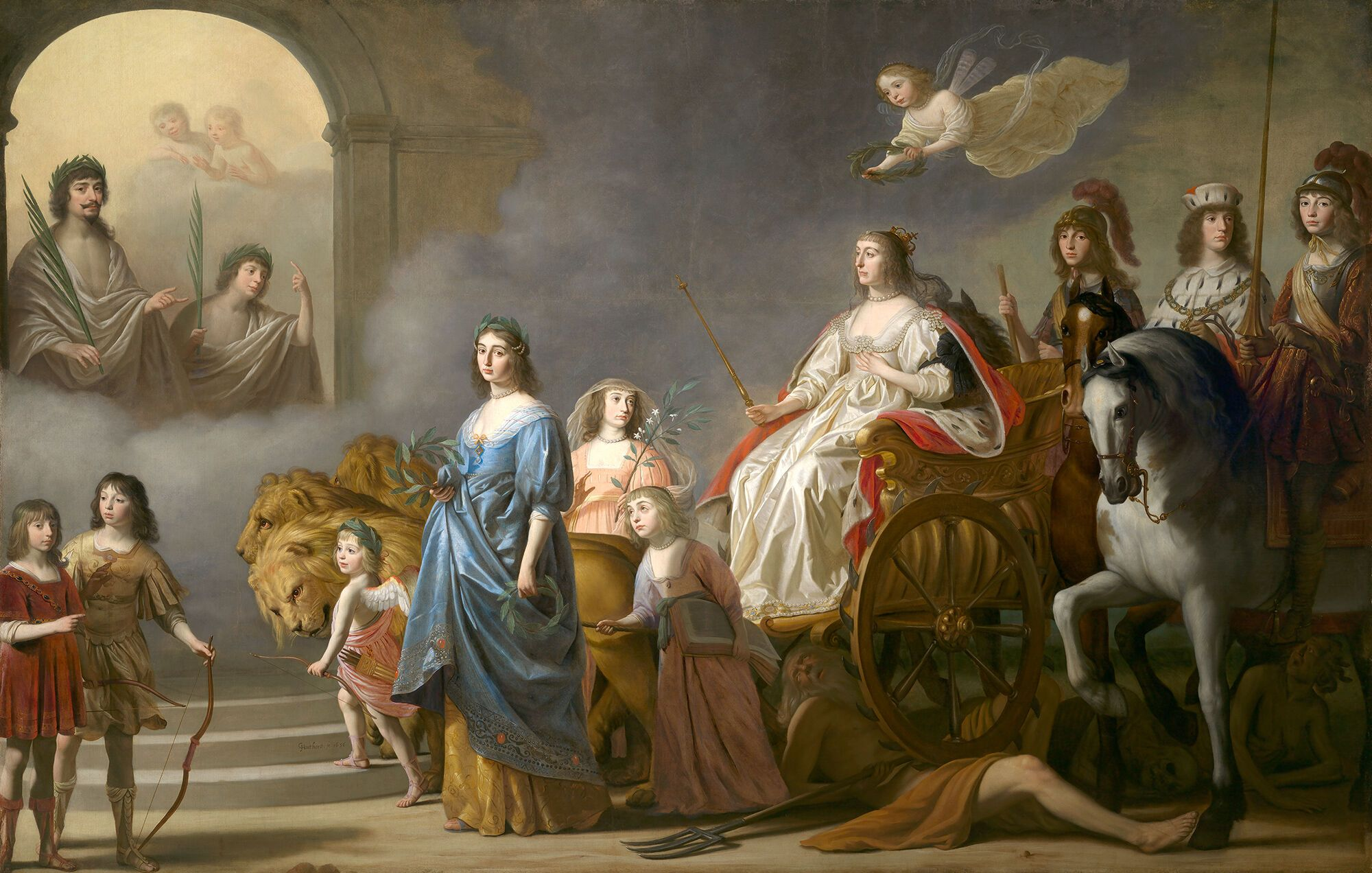 depicts A. Elizabeth, 1596–1662; B. Frederick V, 1596–1632; 1. Frederick Henry, 1614–1629; 2. Charles Louis, 1617–1680; 3. Elizabeth, 1618–1680; 4. Rupert of Rhine, 1619–1682; 5. Maurice, 1620–1652; 6. Louise Hollandine, 1622–1709; 7. Louis, 1623–1624; 8. Edward, 1625–1663; 9. Henrietta Maria, 1626–1651; 10. Philip, 1627–1650; 11. Charlotte, 1628–1631; 12. Sophia, 1630–1714; 13. Gustavus Adolphus, 1632–1641.